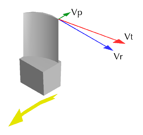 vectorial velocities in an axial flow compressor